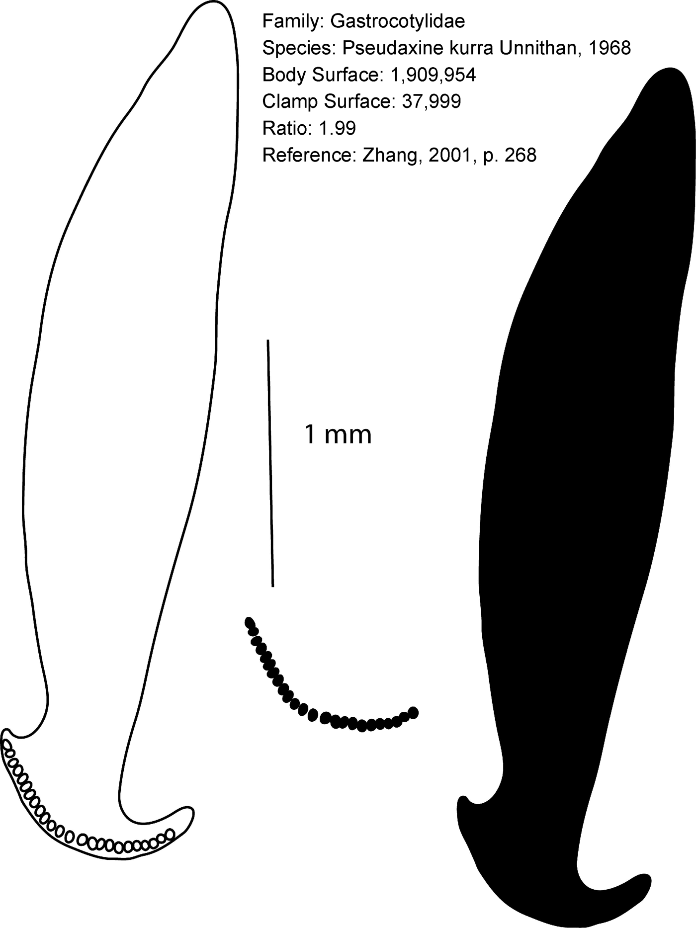 Pseudaxine kurra Unnithan, 1968 Gastrocotylidae Cropped from: Supporting Information file S1 PDF of all figures and measurements of clamp and body surfaces. Total number of figures: 120.